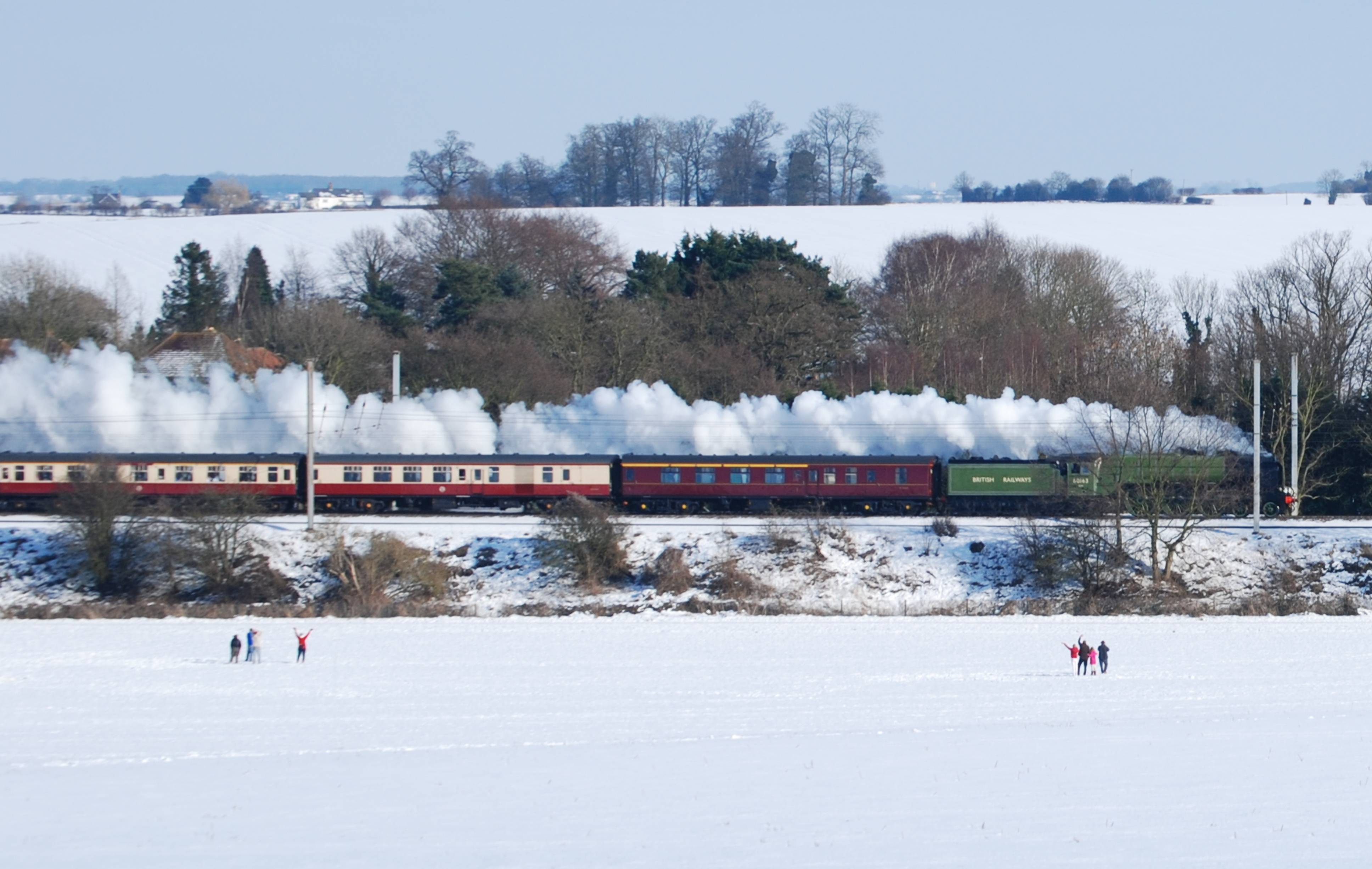 Brand new steam locomotive 60163 Tornado on her first main line passenger journey to London, The Talisman, 7 February 2009, Knebworth